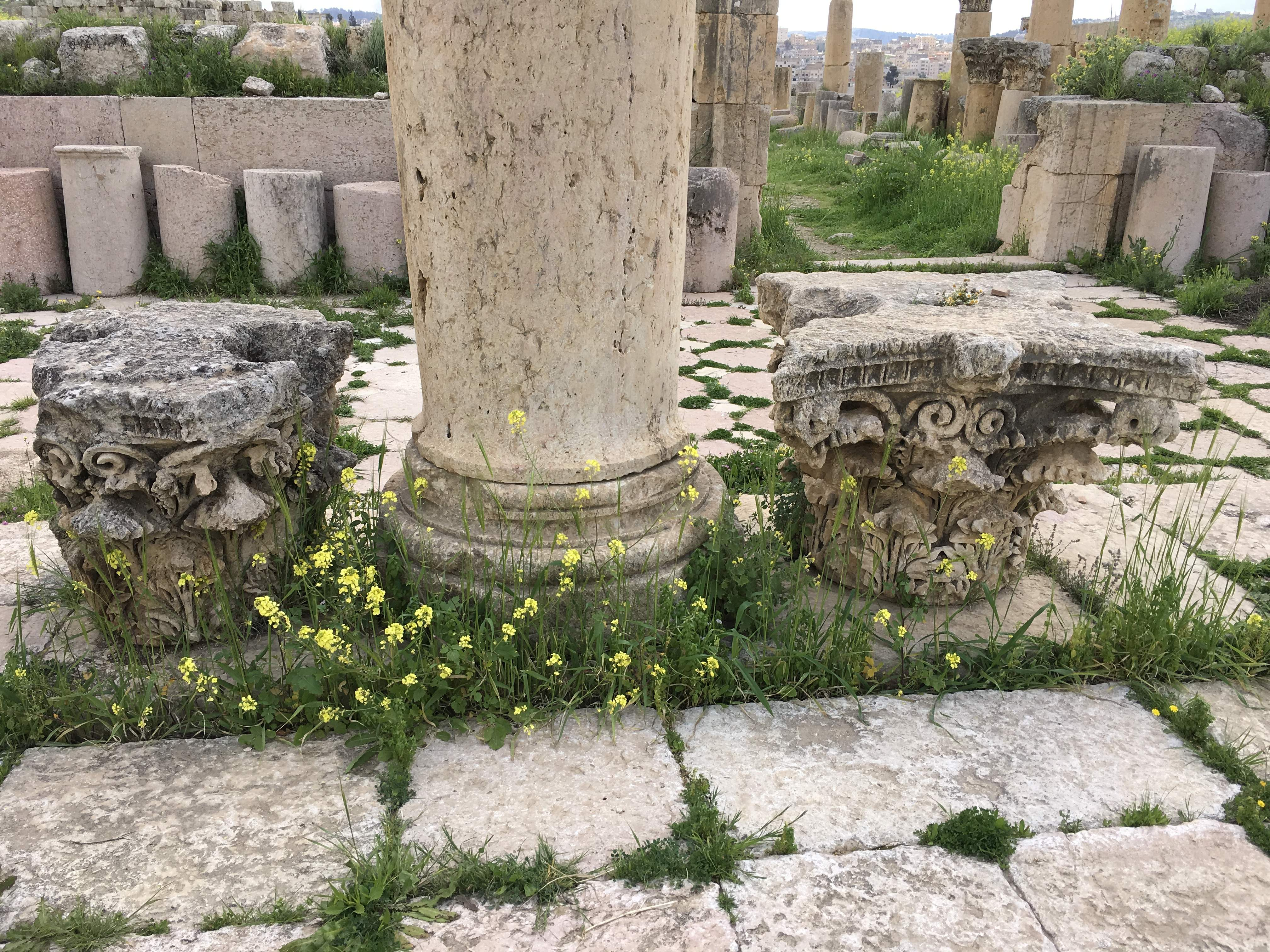 Fountain Court (Jerash)